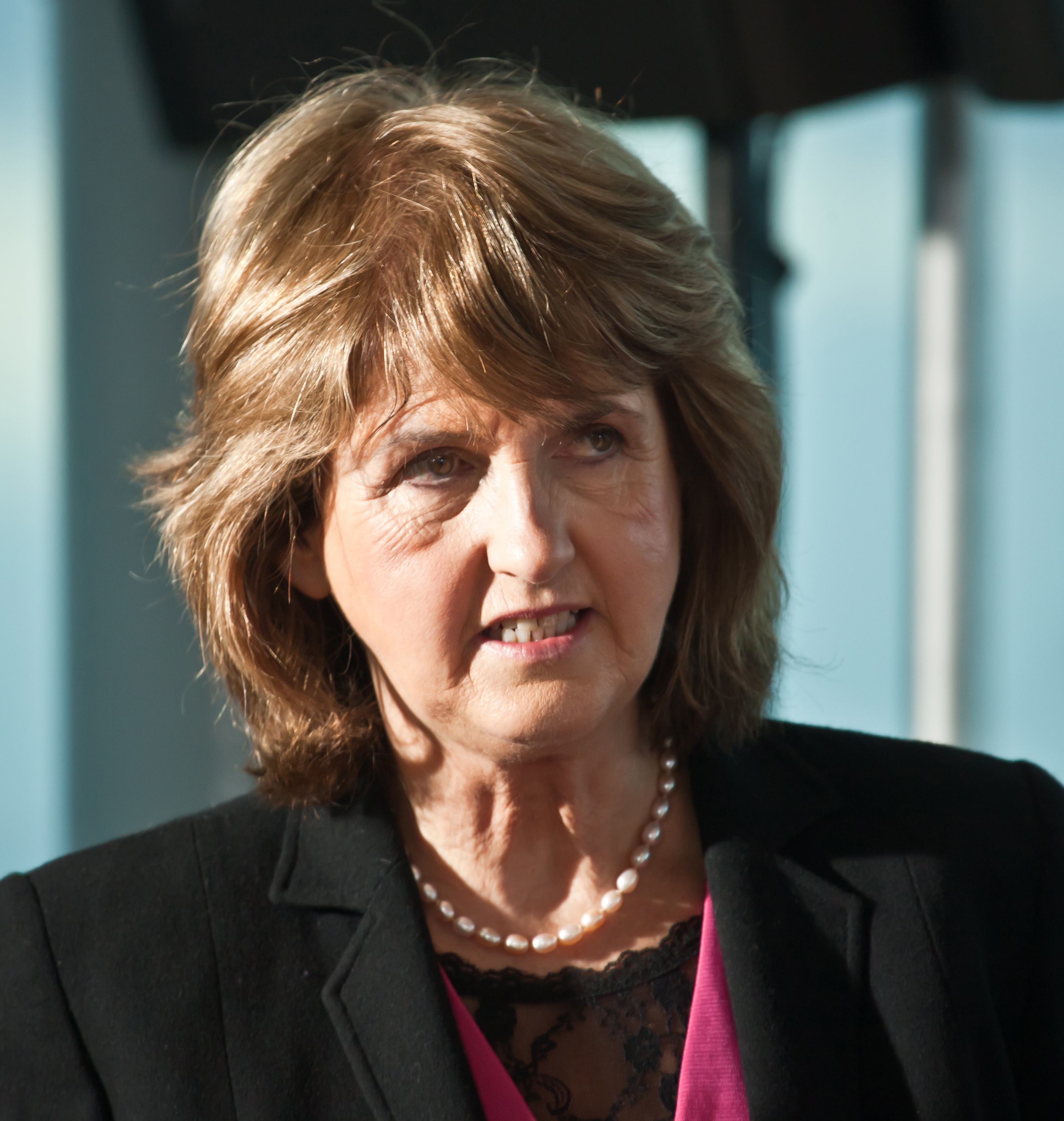 Crop of Joan Burton at launch of the Labour Party's 2011 General Election campaign.